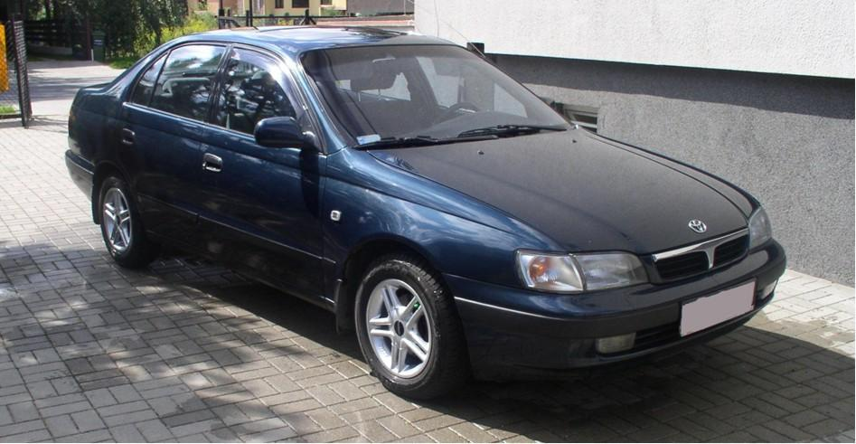 Toyota Carina E - Front